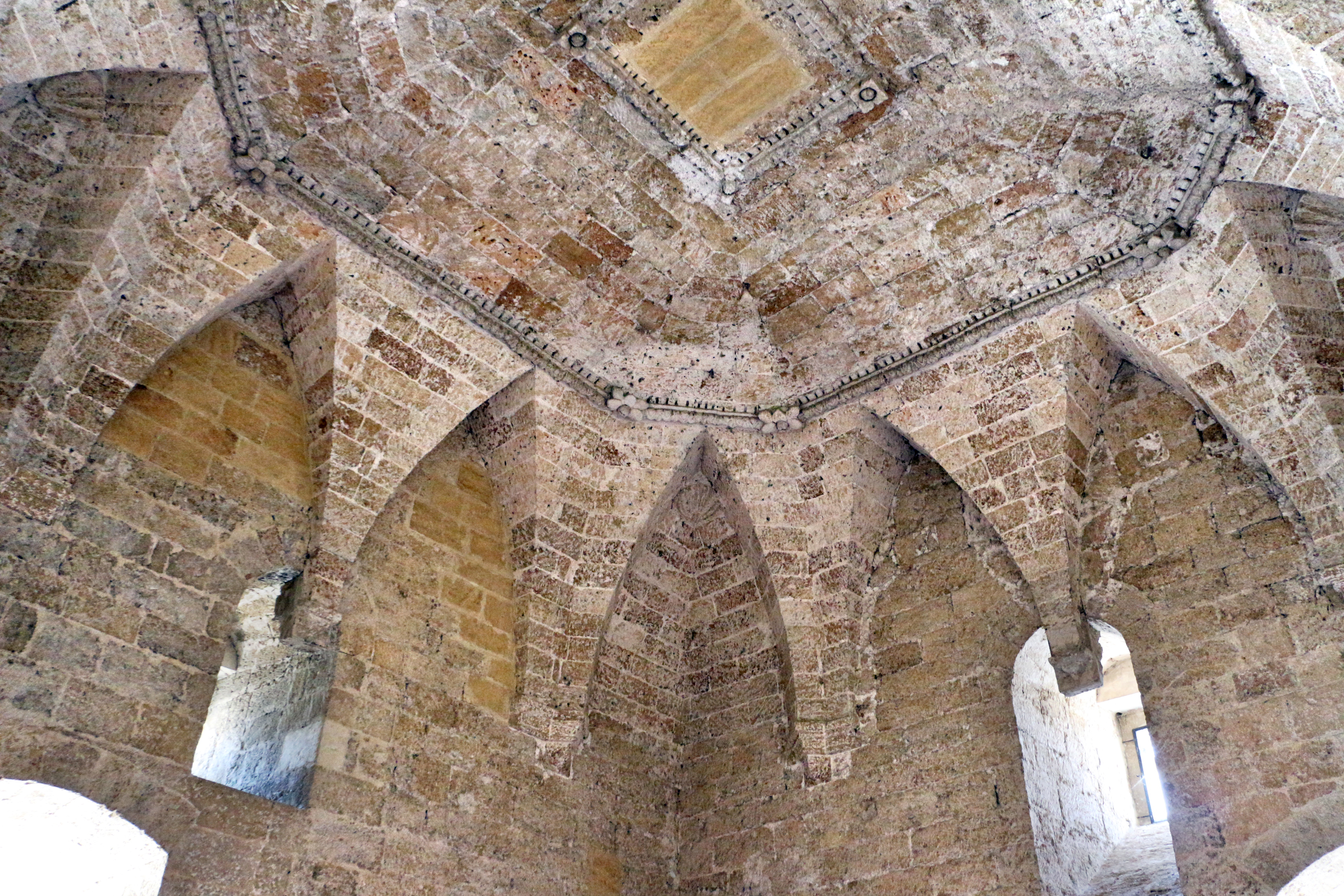 Castello normanno-svevo (Gioia del Colle) - Interior